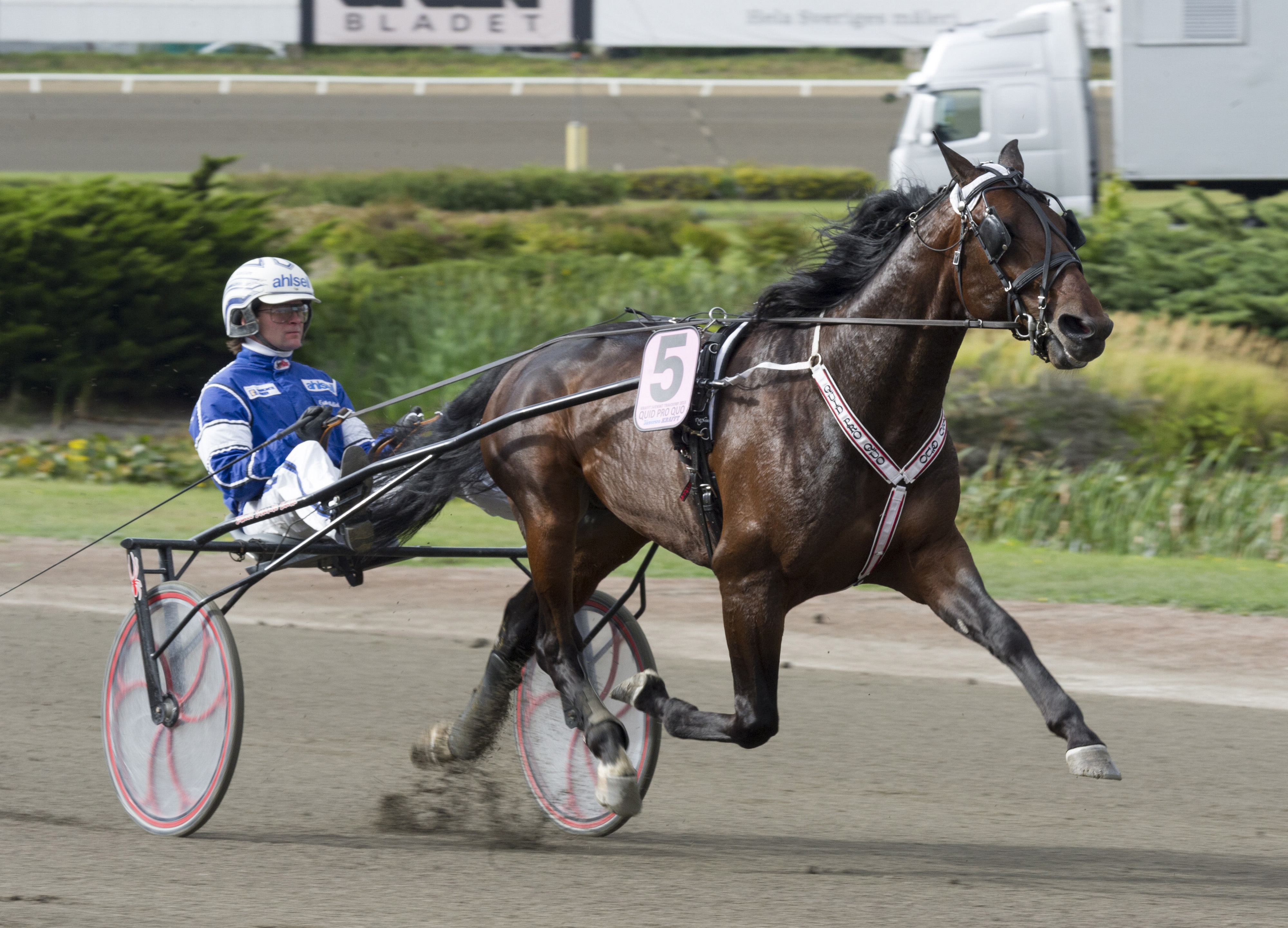 Foto:Tommy Andersson/ALN, Jägersro 20130901 Quid Pro Quo and Erik Adielsson.